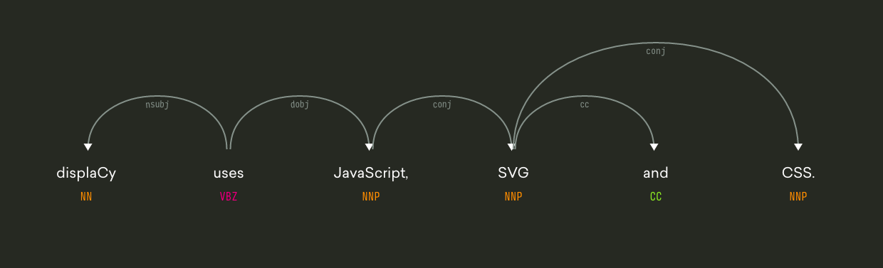 Screenshot of the displaCy dependency parse tree visualizer